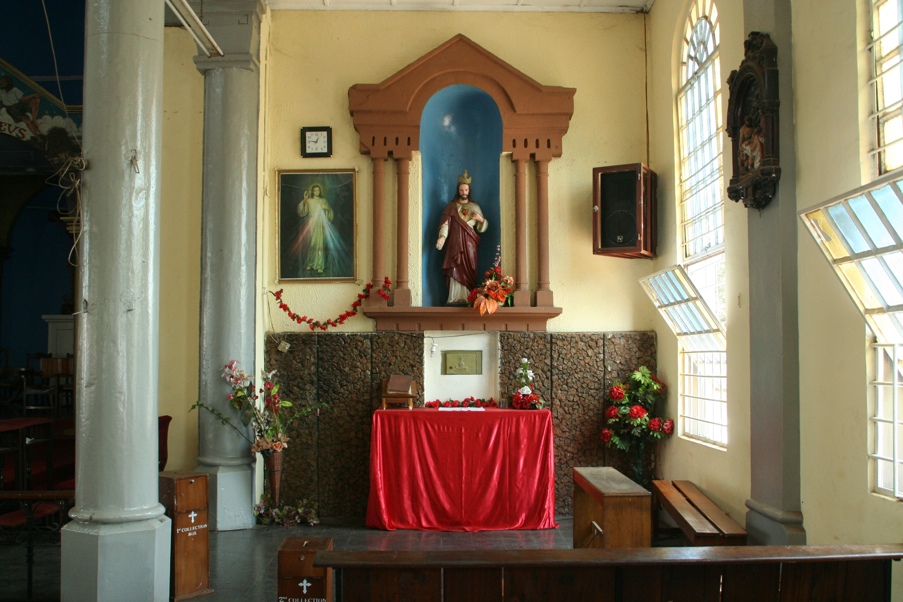 St. Anthony Catholic church in Freetown